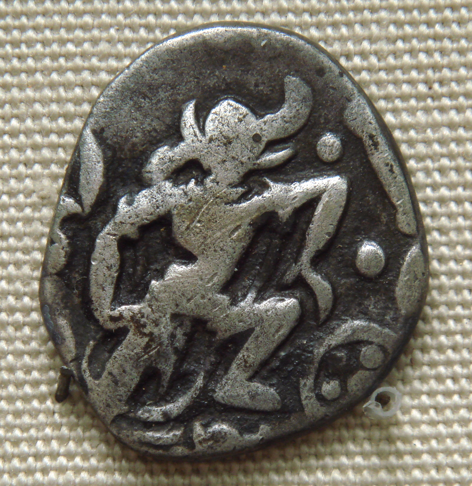 Coin with Varaha (Vishnu Avatar) on a Pratihara coin 850-900 CE